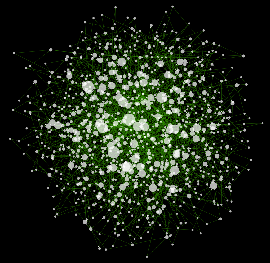 Random network generated by Cytoscape RandomNetworks plugin. Visualized by Cytoscape 2.6.1.